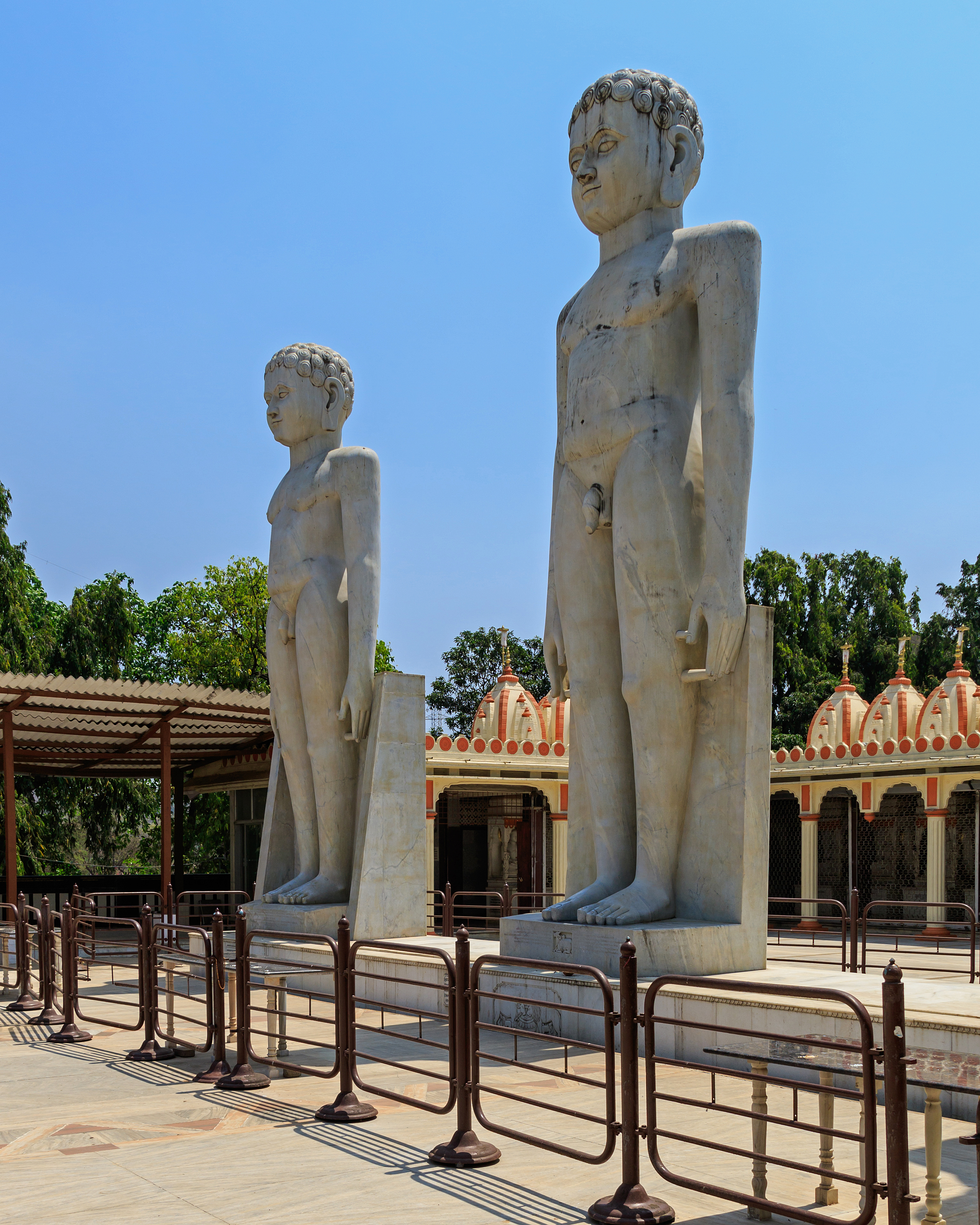 Teenmurti Digambar Jain Temple in Sanjay Gandhi National Park in Mumbai, India